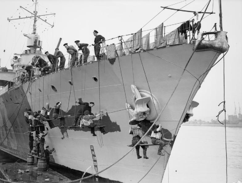 Members of the ship's crew of FFS LE TRIOMPHANT in working rig, seated on gantries hanging over the ship's side, painting the ship's bow. FFS LE TRIOMPHANT was one of the French naval ships which came to British ports after the capitulation of the French Government and was manned by Free French sailors, forming part of the Free French Navy.